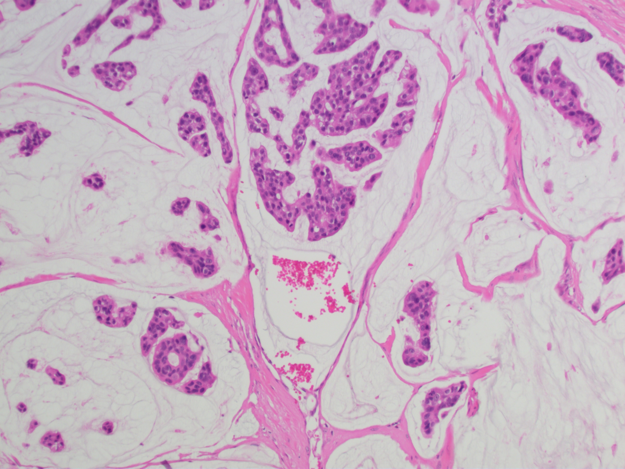 Breast - Mucinous carcinoma - medium power